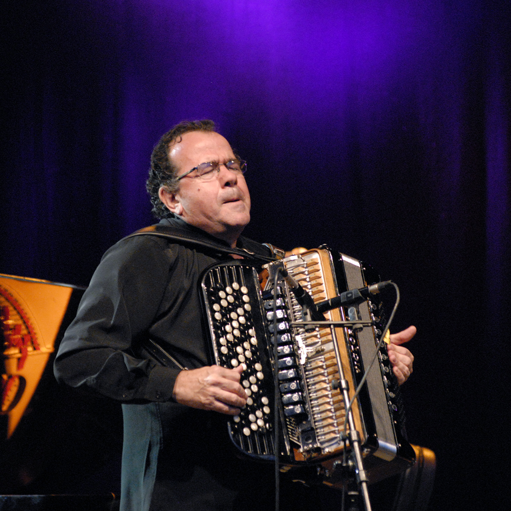 Richard Galliano performing at Stockholm JazzFest09